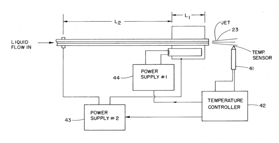 Diagram (cross sectional view) of third representation of thermospray vaporizer